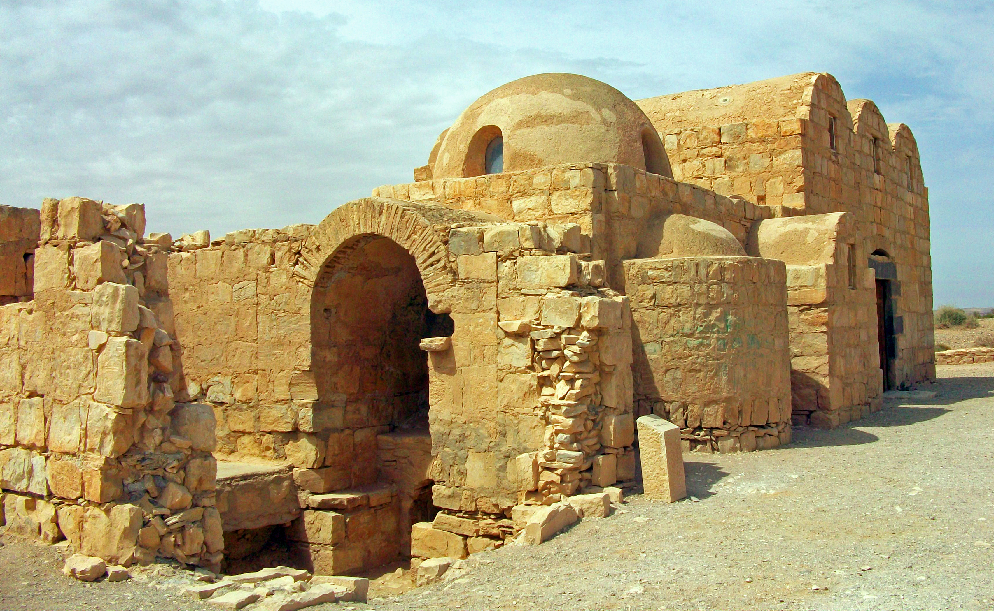 East (front) elevation and portion of south side of Qusayr Amra, Jordan